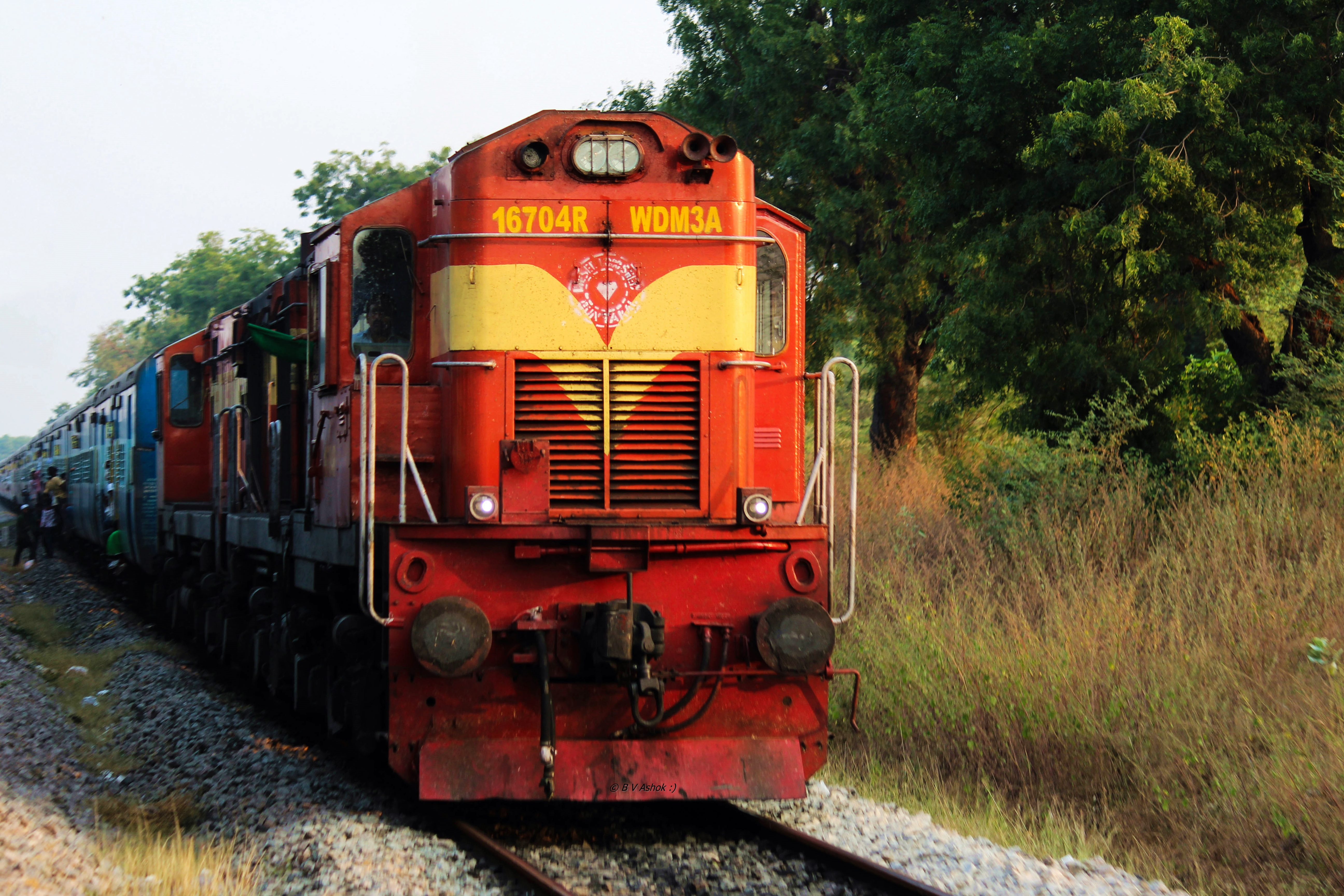 GTL WDM-3A 16704R waiting patiently at Sivungaon with its twin partner hauling 17058 Secunderabad - Mumbai CST Devagiri Express...